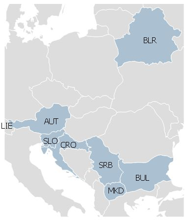 Mobilkom Austria Group Footprint